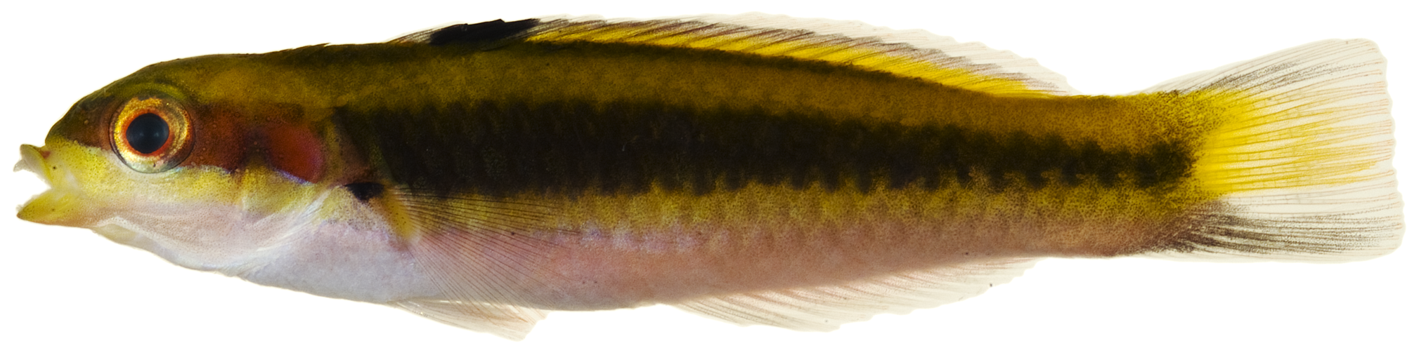 Thalassoma bifasciatum (Bloch, 1791)—bluehead, 39.3 mm SL, juvenile/initial color phase. Photo by JT Williams.